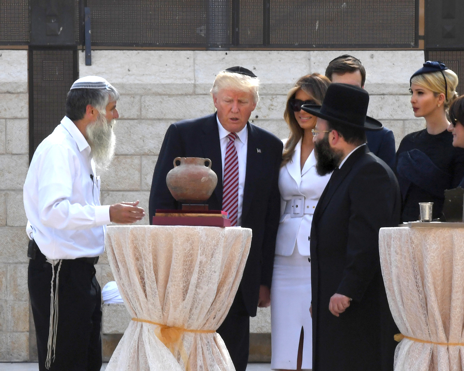 POTUS visit the Western Wall, accompanied by the Western Wall's rabbi, Shmuel Rabinovitz and Mordechai "Solly" Eliav, Director General of the Western Wall Heritage Foundation. Jerusalem, May 22, 2017 Photo credit: Matty Stern/U.S. Embassy Tel Aviv President Trump visit to Israel, May 2017.